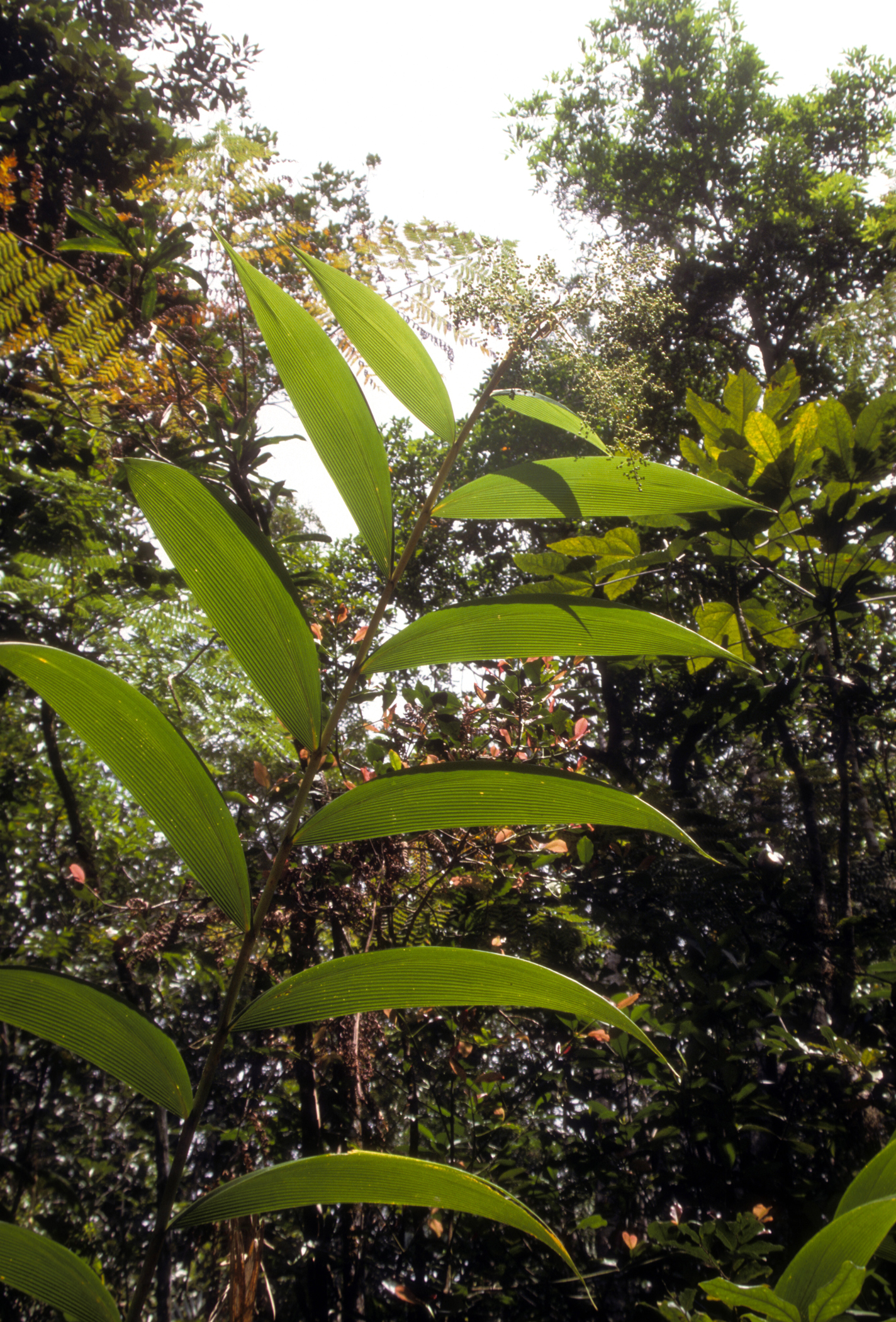 Riviere Bleue, New Caledonia. Oct 2000.